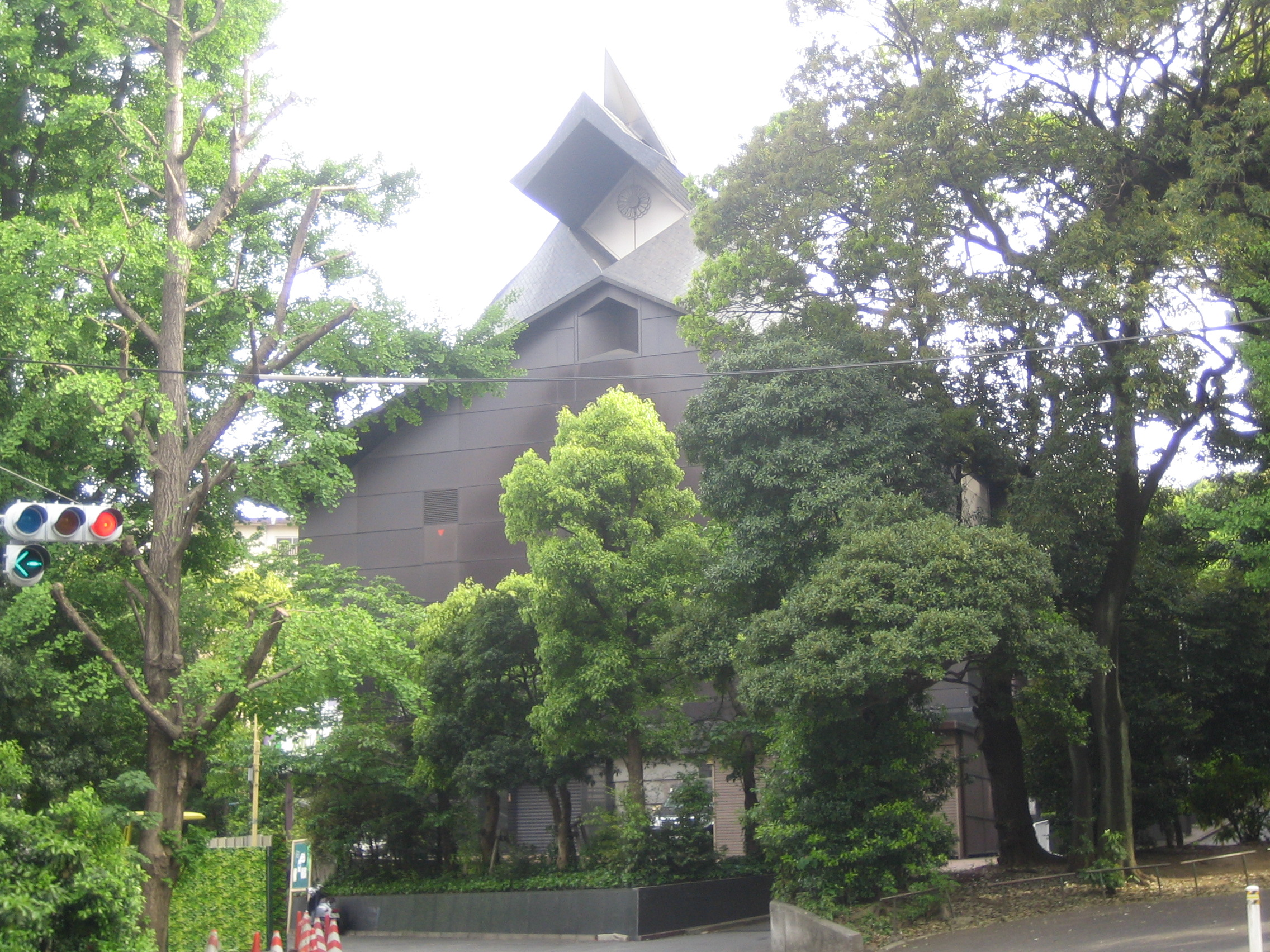 Jinjahoncho (神社本庁), in Shibuya, Tokyo|Shibuya, Tokyo, Japan